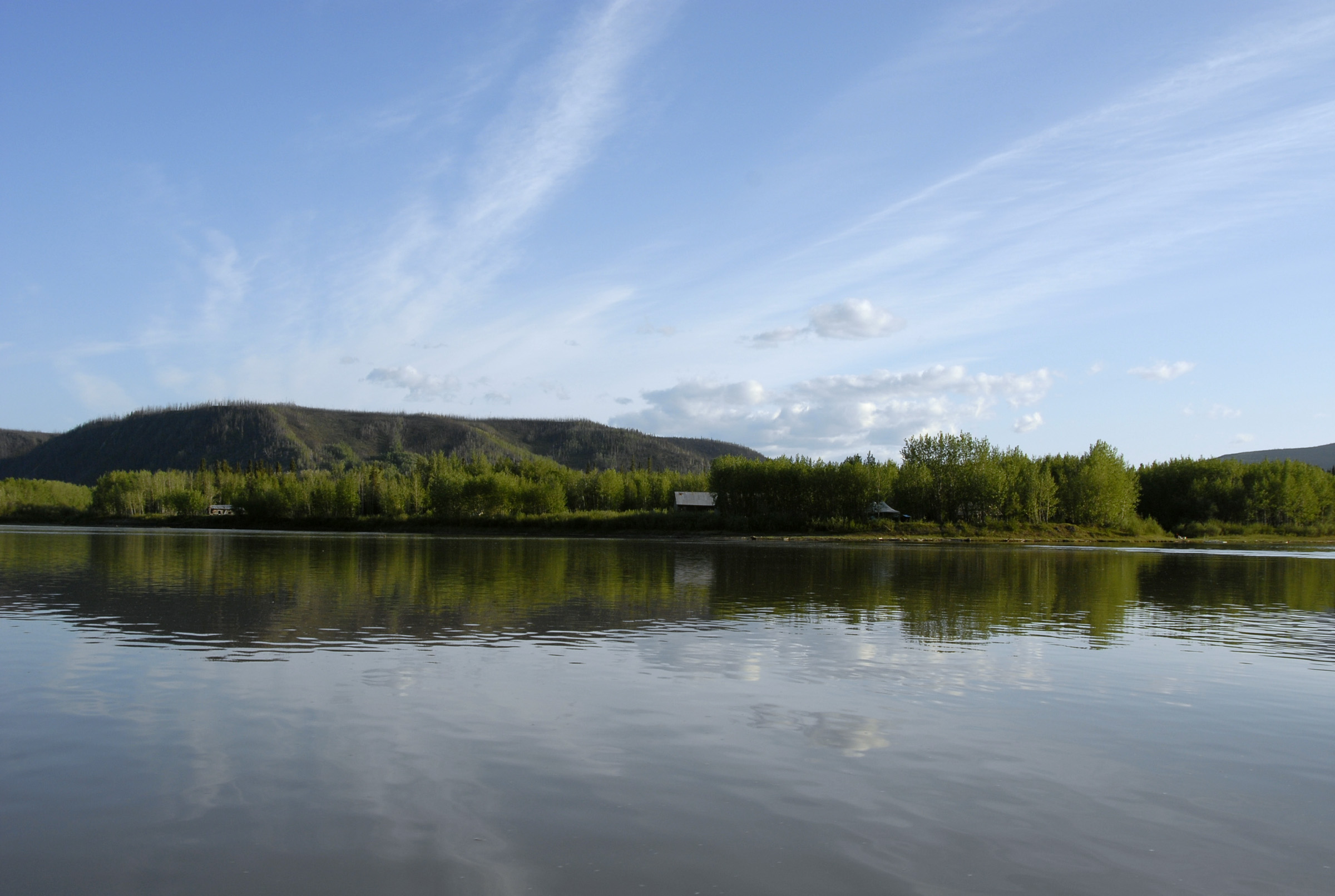 An image of Forty Mile historic site, Yukon, Canada.